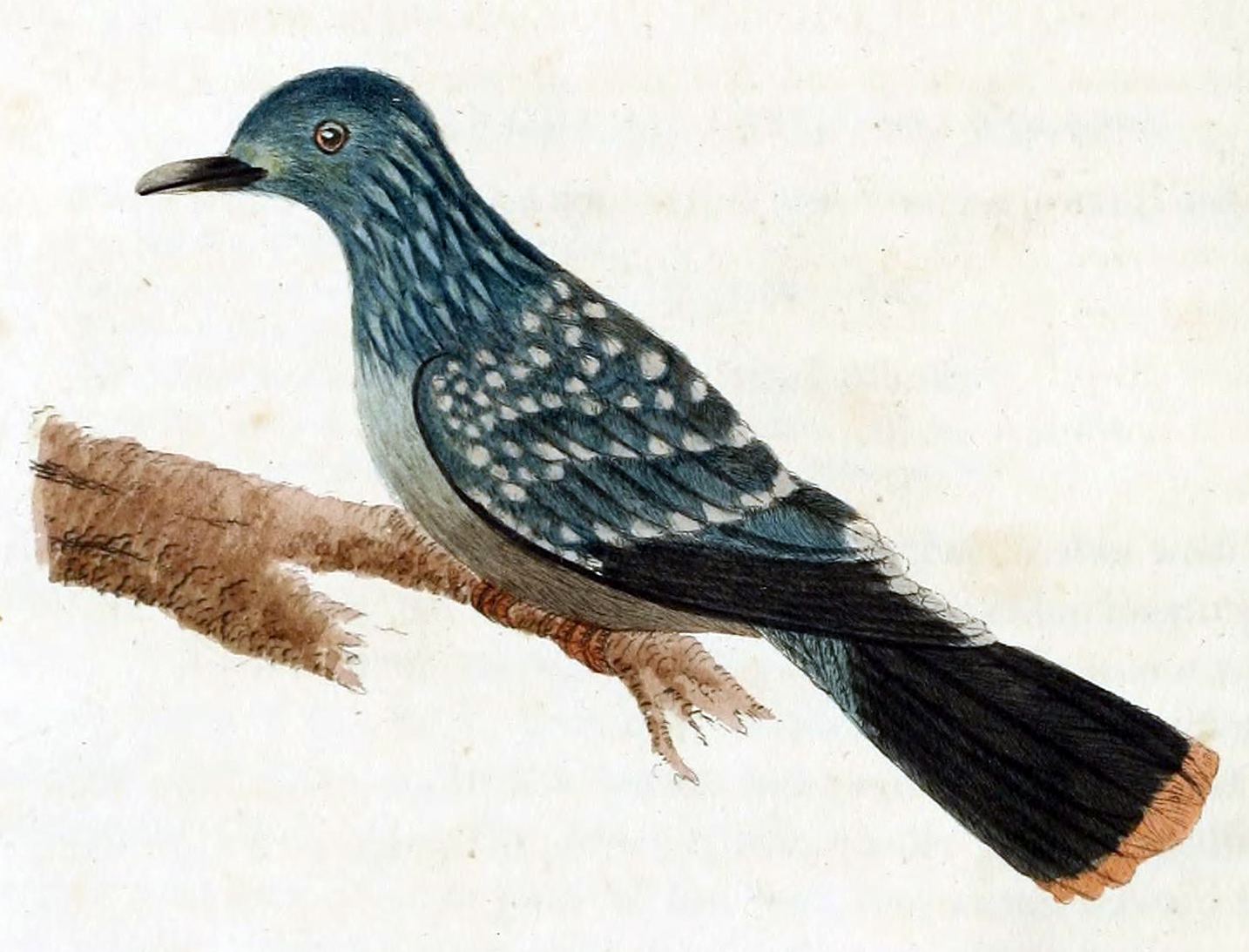 Spotted Green Pigeon Caloenas maculata. Depiction from John Latham, A General History of Birds 8: plate CXVII (between pp. 22-23). Winchester: Printed by Jacob and Johnson, for the author, 1823.